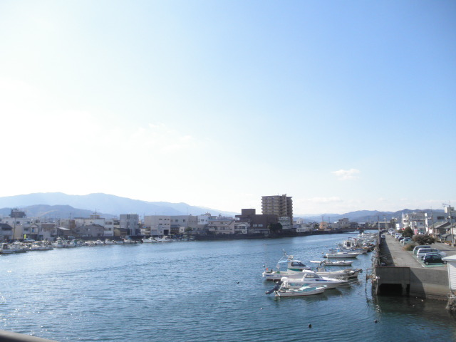 Komatsushimatown 外開 Komatsushimacity Tokushimapref Kandase river